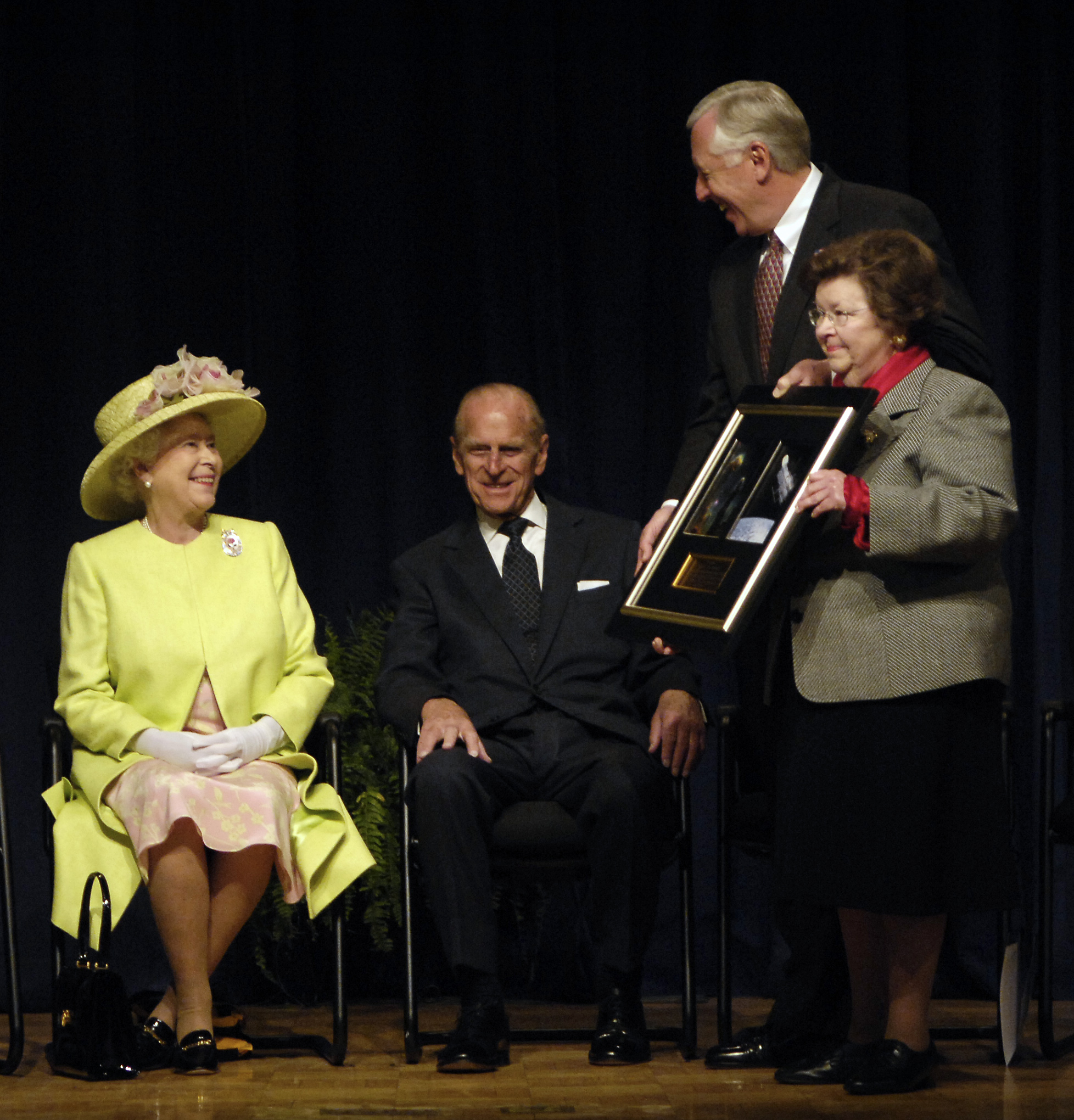 Queen Elizabeth II is presented with a framed photograph of the Hubble Space Telescope by Rep. Steny Hoyer, D-Md., and Sen. Barbara Mikulski, D-Md., during a visit to the NASA Goddard Space Flight Center in Greenbelt, Maryland. NASA and the British National Space Center have collaborated on the Hubble project.